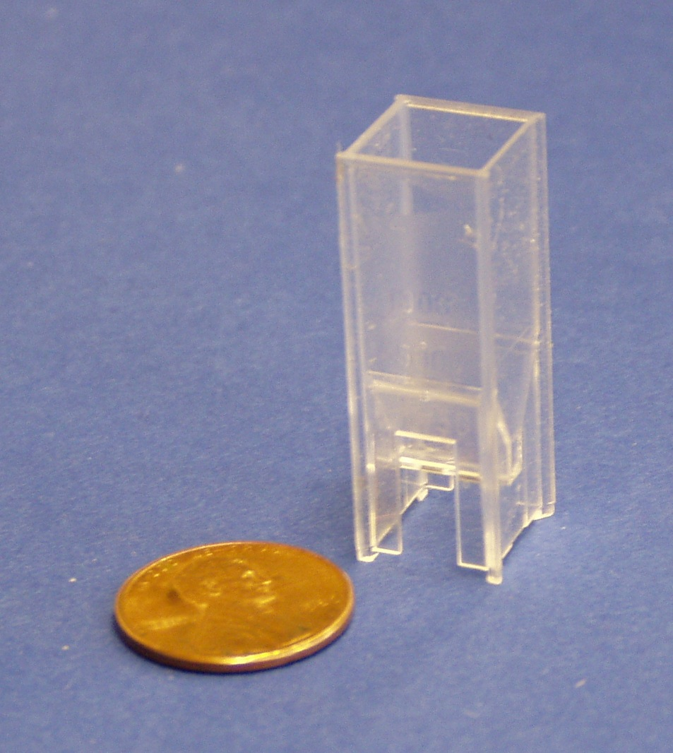 This plastic cuvette is used in a spectrophotometer to measure DNA and RNA concentrations. A United States cent (19 mm diameter) is included for scale.